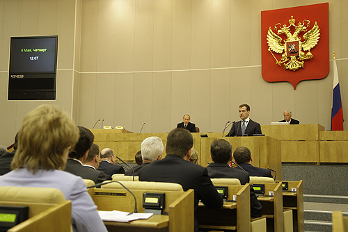 MOSCOW. At a meeting of the State Duma. Presentation of Vladimir Putin’s candidacy for the post of prime minister.